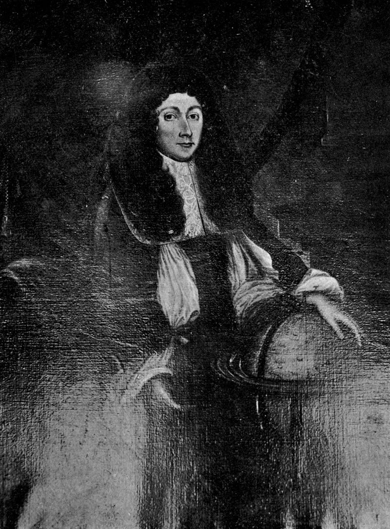 Portrait of Hugh Stafford (1674-1734), who built the present Pynes House in the parish of Upton Pyne, Devon, between 1700 and 1725. Portrait in the collection of his descendant, the Earl of Iddesleigh.